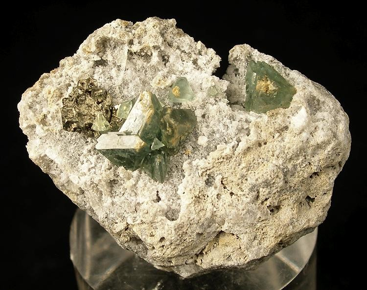 Boracite, Pyrite Locality: Unlike the original information, this specimen is certainly not from the type locality. The mineral association and habitus point to the Sondershausen occurence in Thuringia. Size: 3.0 x 2.3 x 1.2 cm. Boracite is a rare borate found in evaporite deposits and this rare and fine matrix specimen is from the Type Locality (NO!) - the Kalkberg Hill of Lower Saxony, Germany. Sharp, translucent, greenish, orthorhombic boracite crystals to 5 mm are nicely scattered in a cluster or as isolated crystals on the anhydrite matrix. The lustrous, brass-yellow pyrite cube cluster is a nice accent. Ex. George Elling Collection. Very rare in matrix richness, quality and association with pyrite. Older material (whatever "older" means - these specimens where mined during the 1980s under socialistic regime in Eastern Germany.